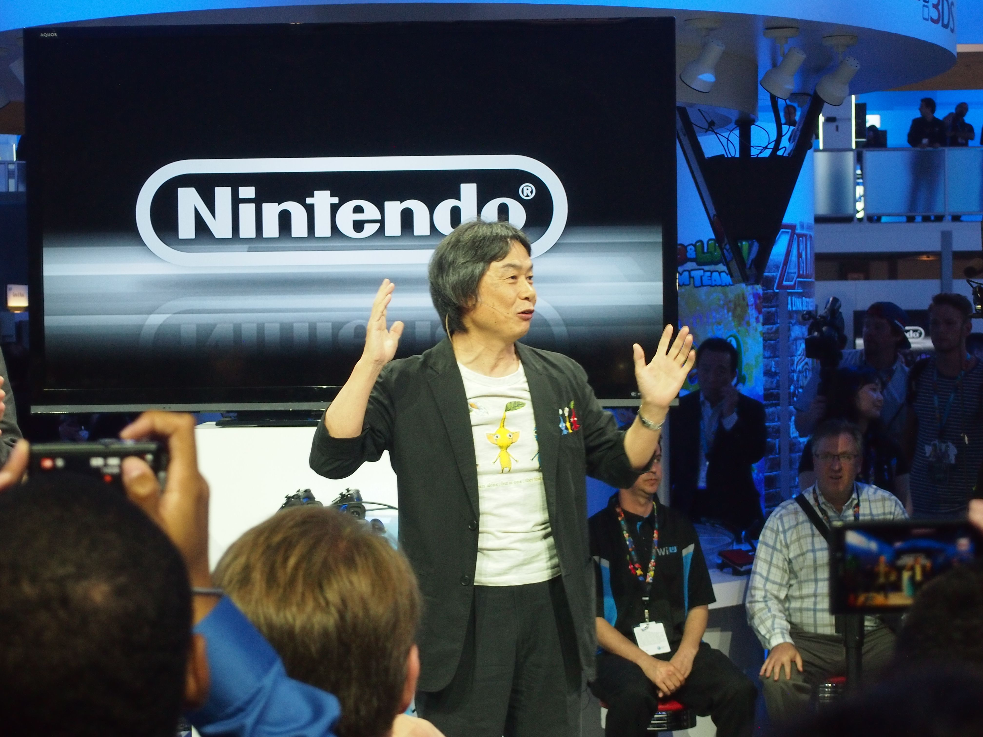 Shigeru Miyamoto at E3 2013.